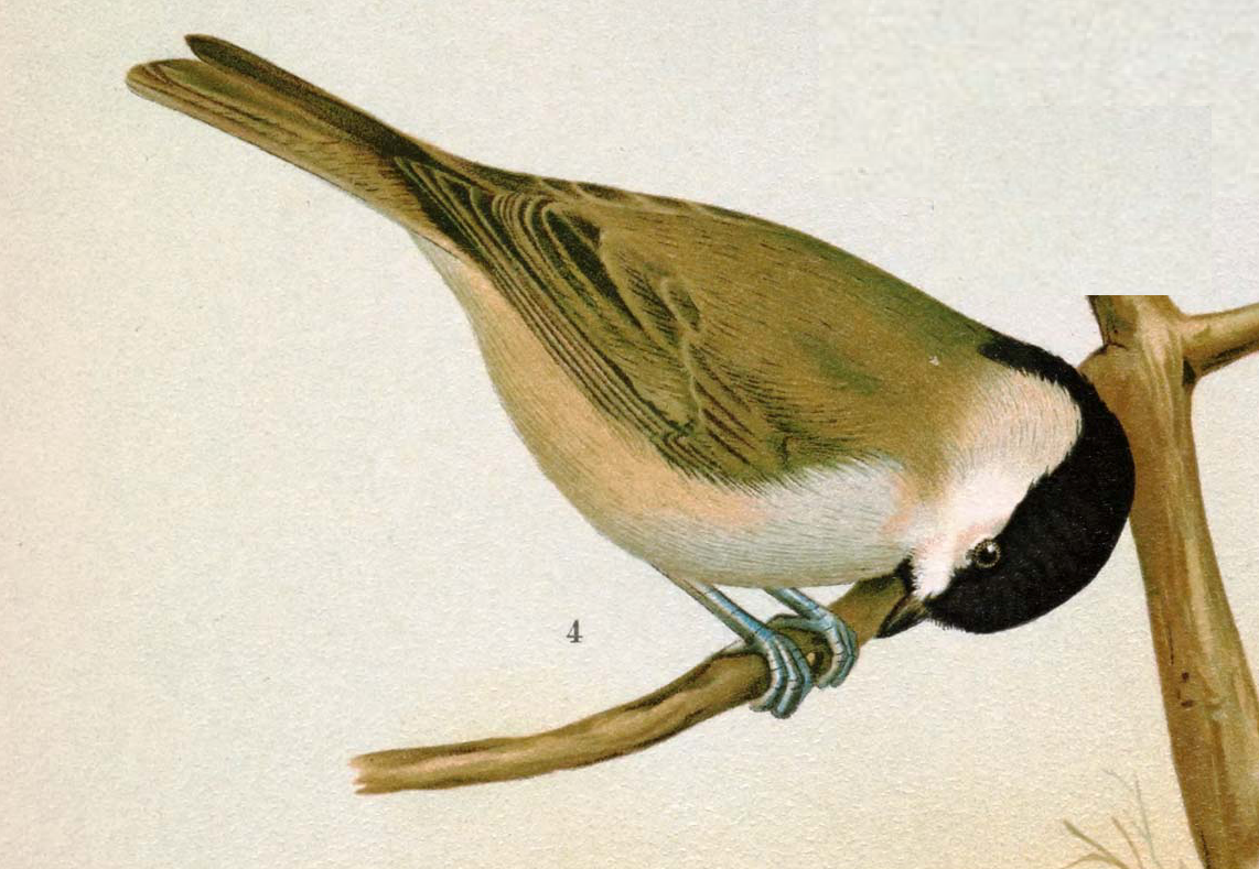 Poecile palustris Naumann